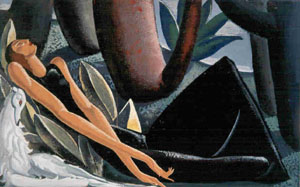 Sleeping Beauty, tempera on cardboard